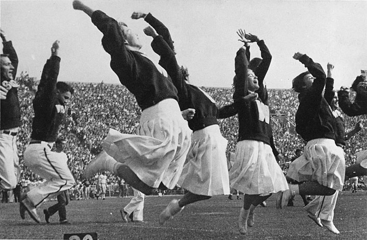 According to the 1957 Badger yearbook, the first women cheerleaders appeared on Dad's Day, October 20, 1956. (Wisconsin 6, Purdue 6) A letter from former cheerleaders from 1986, however, states that officially sanctioned women cheerleaders first appeared on campus in the fall of 1952 (4 women had done a routine at Homecoming 1951, but they were not official cheerleaders). Coed cheerleaders were abolished in the spring of 1954 then reintroduced in 1956. UW Digital Collections